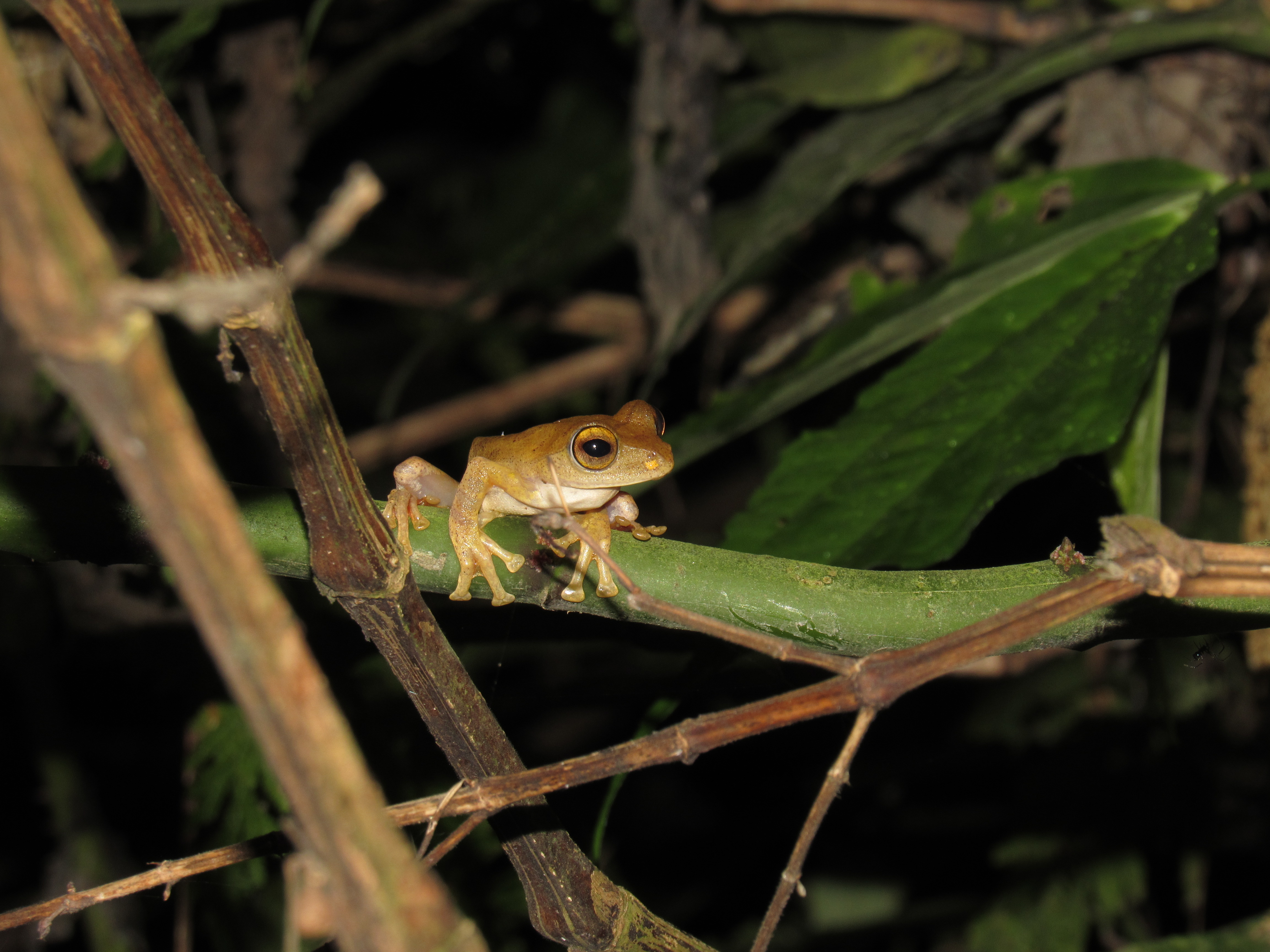 Javan Flying Frog / Rhacophorus margaritifer (Schelegel, 1837). You can find this species in Java, especially on Slamet Mountain and some highland forest in West Java, but current population trend is decreasing categories by IUCN